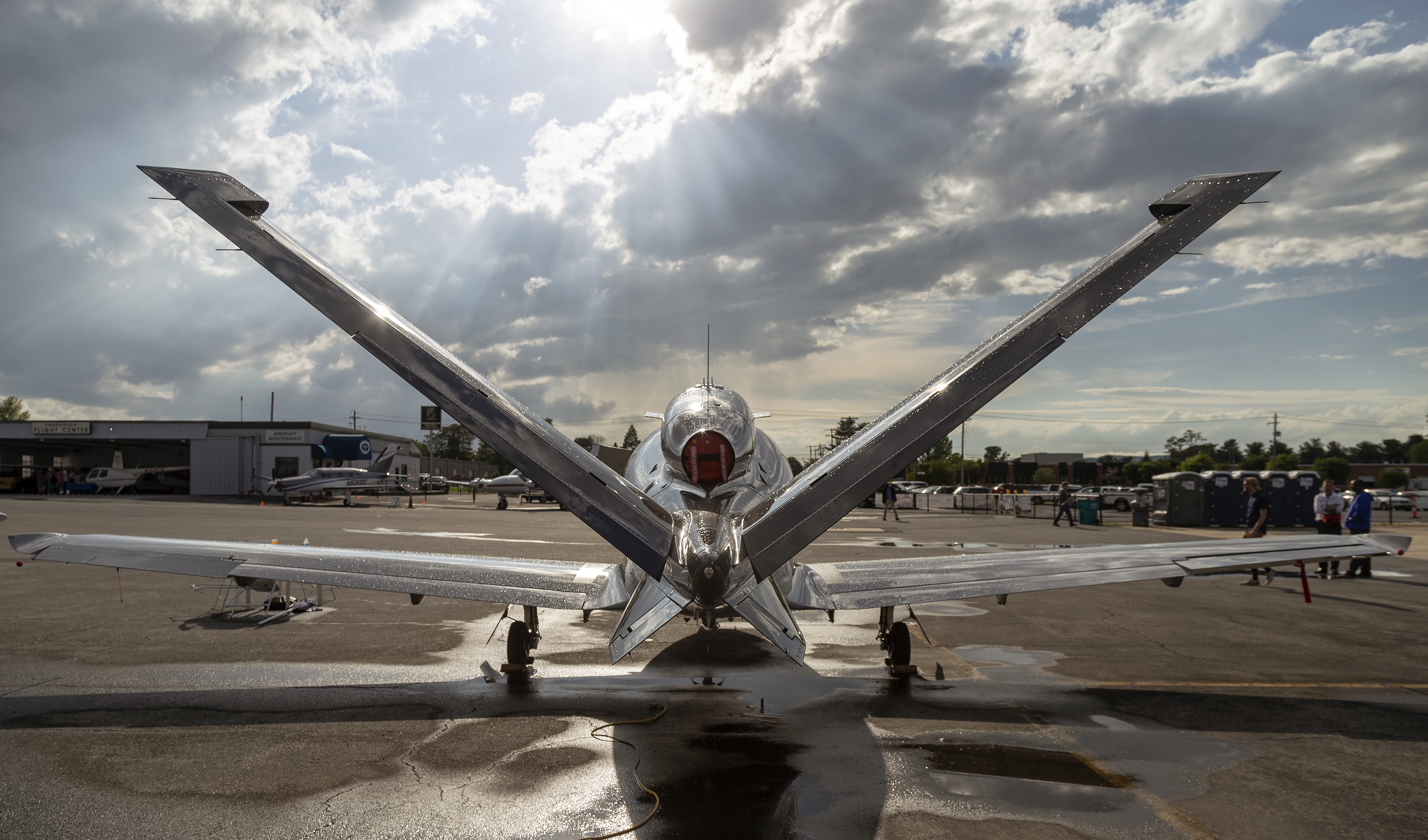 Cirrus Vision SF50 N178FA at Frederick Municipal Airport for the 2019 AOPA Fly-In, Frederick, Maryland, USA, seen from the rear, with crepuscular rays